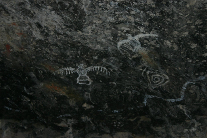 Pictographs in the Huachuca Mountains made by Native Americans